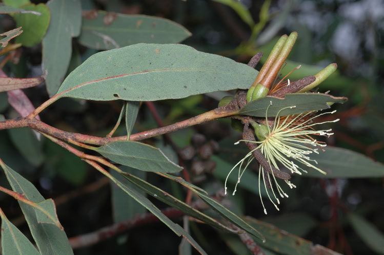 Flowers and buds of Eucalyptus macrandra in the Mount Annan Botanic Gardens, New South Wales